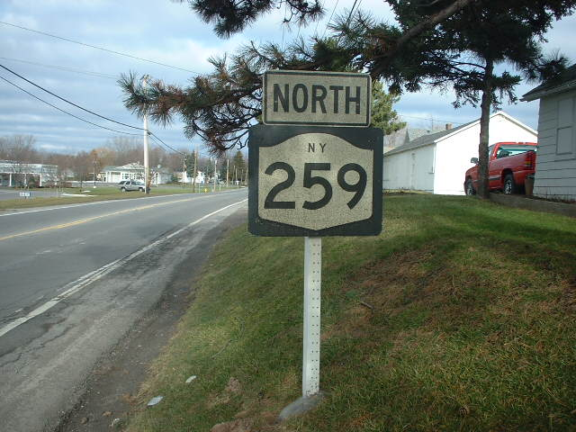 Old signage on New York State Route 259 heading northbound in 2000. This sign has since been removed and a sidewalk runs along the hill to the side.